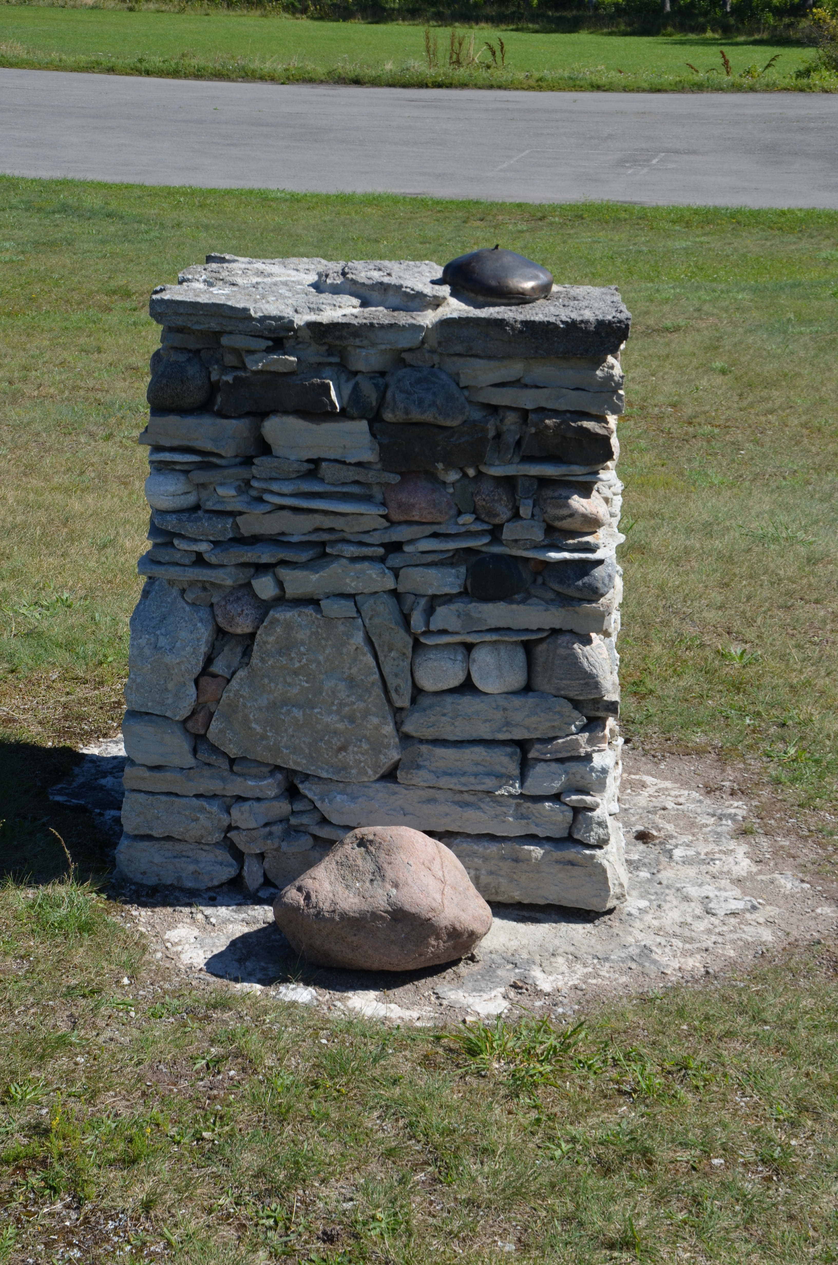 Bergmans närvaro av Kaj Engström vid Bergmancenter på Fårö